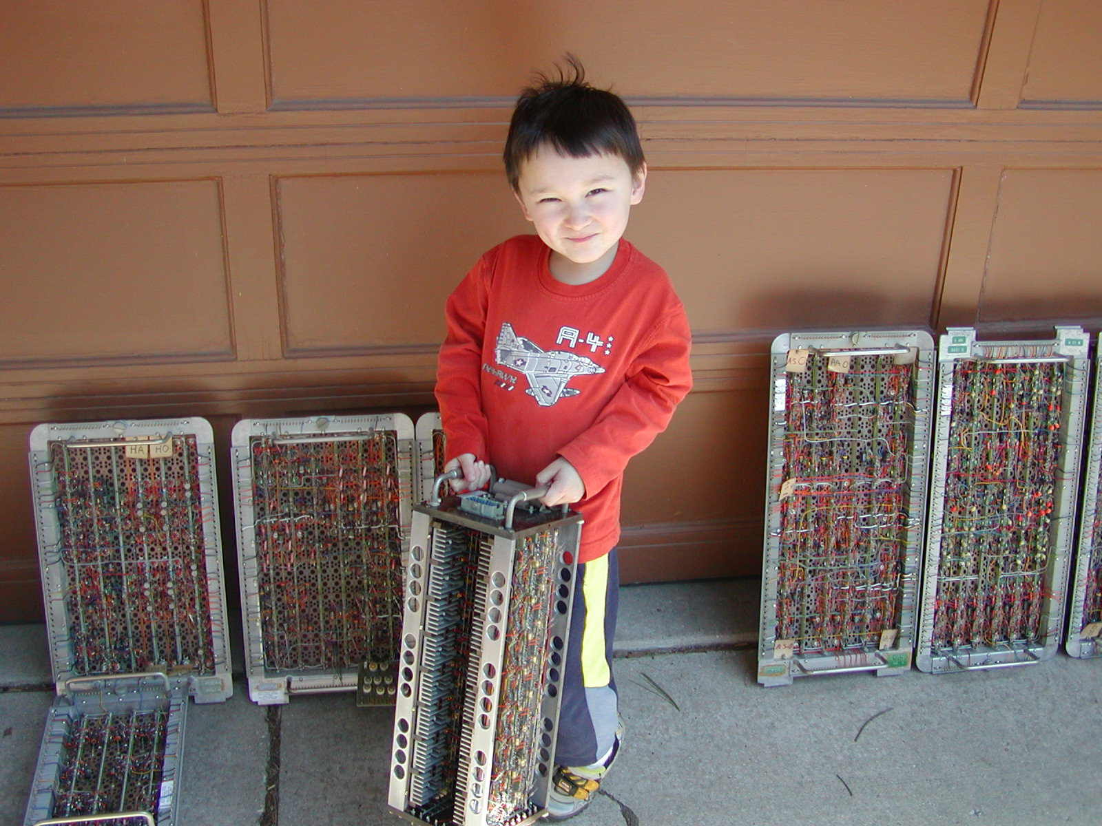 Pictures of ILLIAC II Control Chassis, Memory Chassis. A memory-controller chassis is held by Liam W. Gillies, the grandson of Donald B. Gillies, ILLIAC II control circuitry designer. The other chassis are believed to be control chassis. These pieces (saved from destruction in the early 1970's) were donated back to the Dept. of CS at the University of Illinois in April 2005. Photo and upload by systemBuilder.